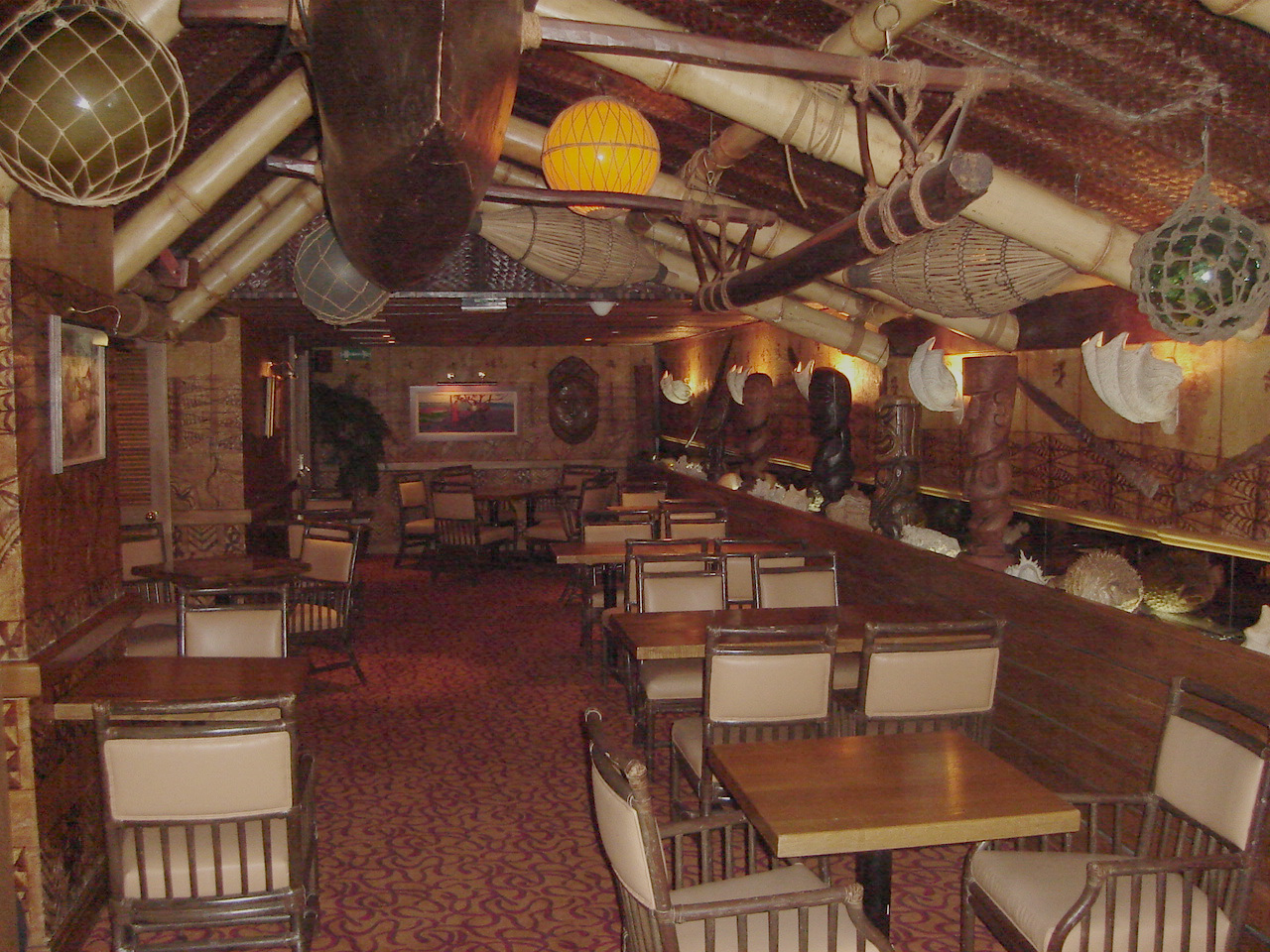 Inside Trader Vics London